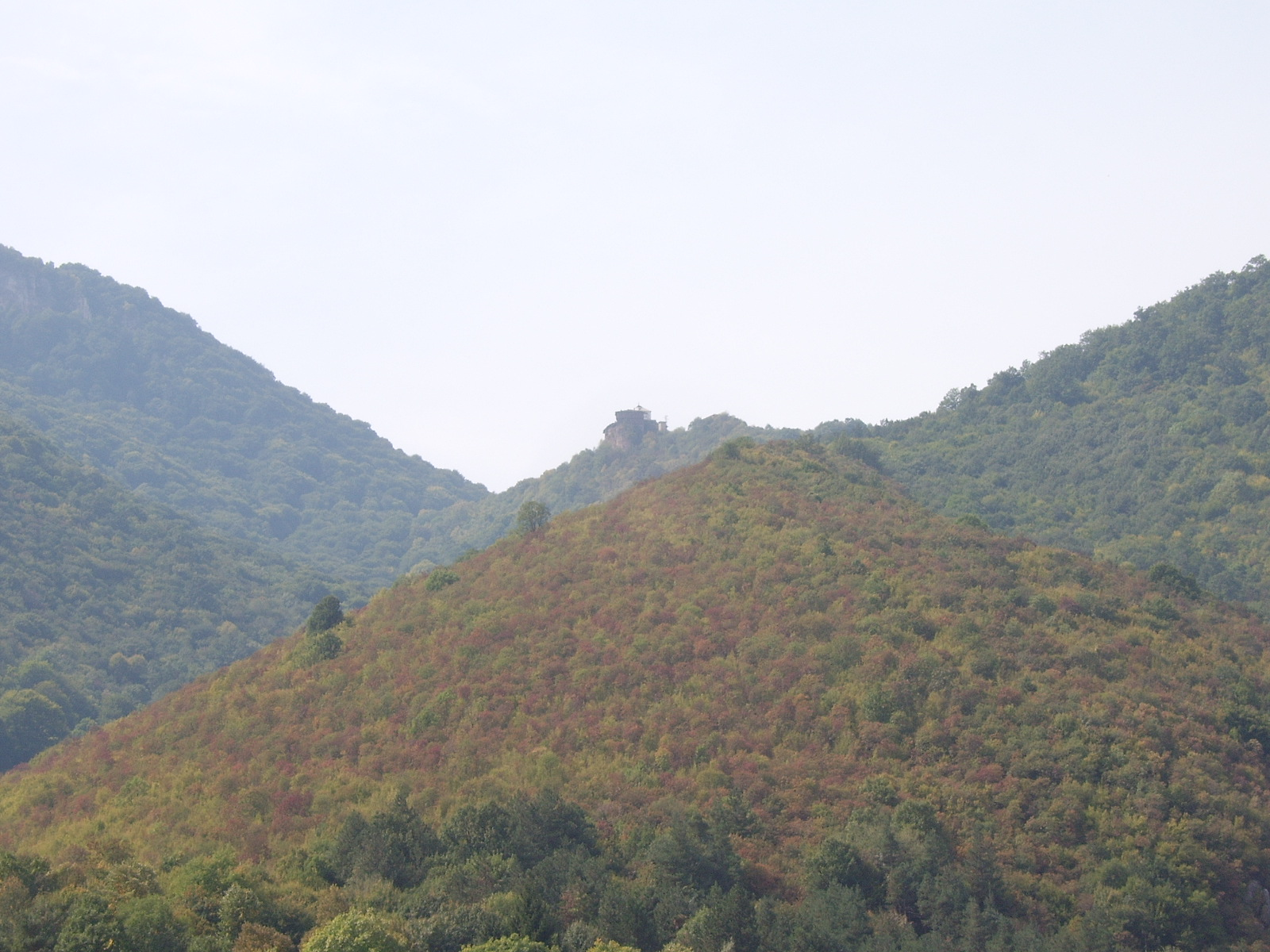 Glozhene Monastery "Saint George" - view from the village.